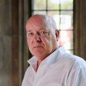 Author bio pic of Ian Hamilton (Ava Lee series) Other information I'm a friend of author Ian Hamilton. He'd given me this image of himself so I could upload to his webpage ( and wikipedia).